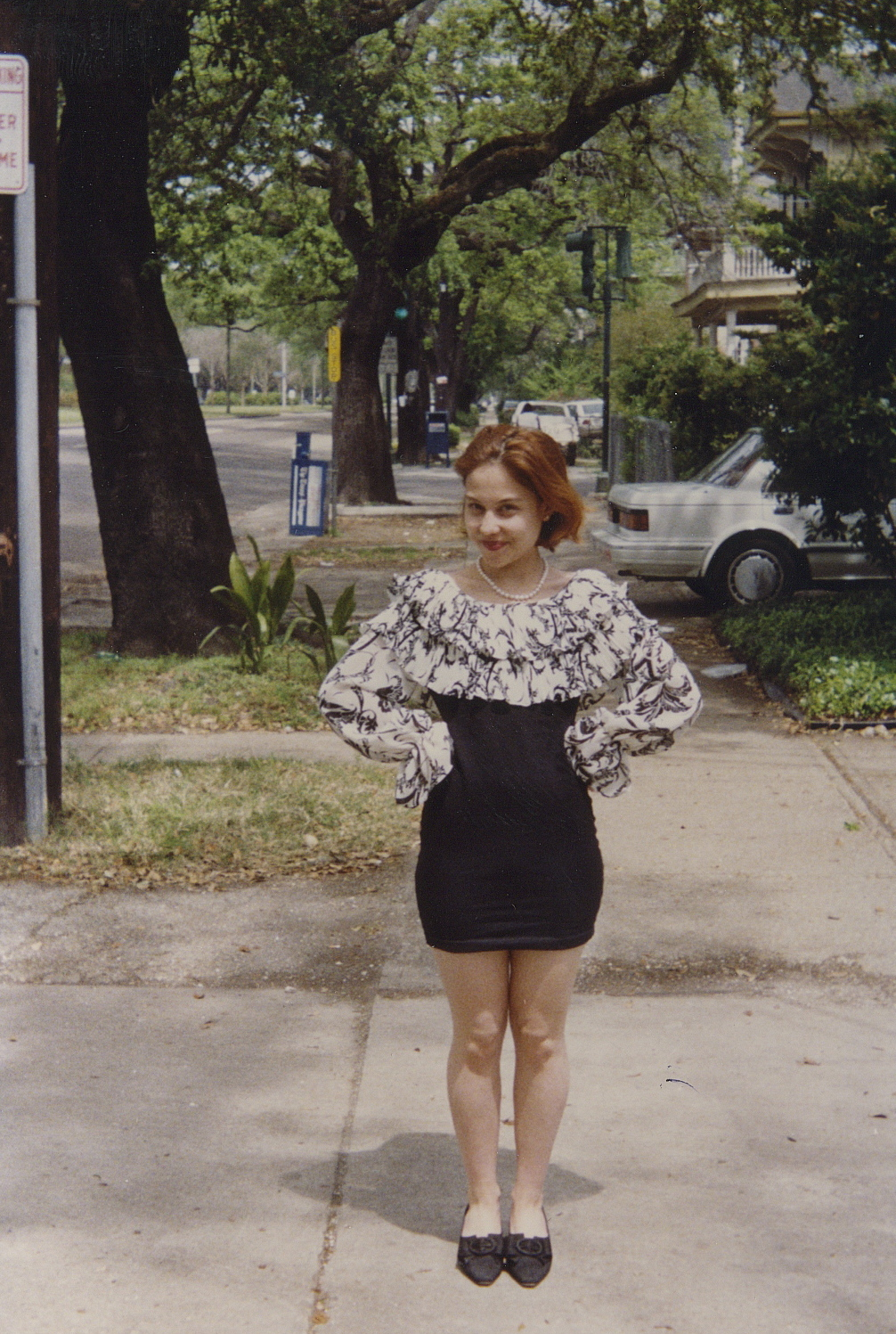 Young woman standing on sidewalk on Napoleon Avenue, Uptown New Orleans, 1992